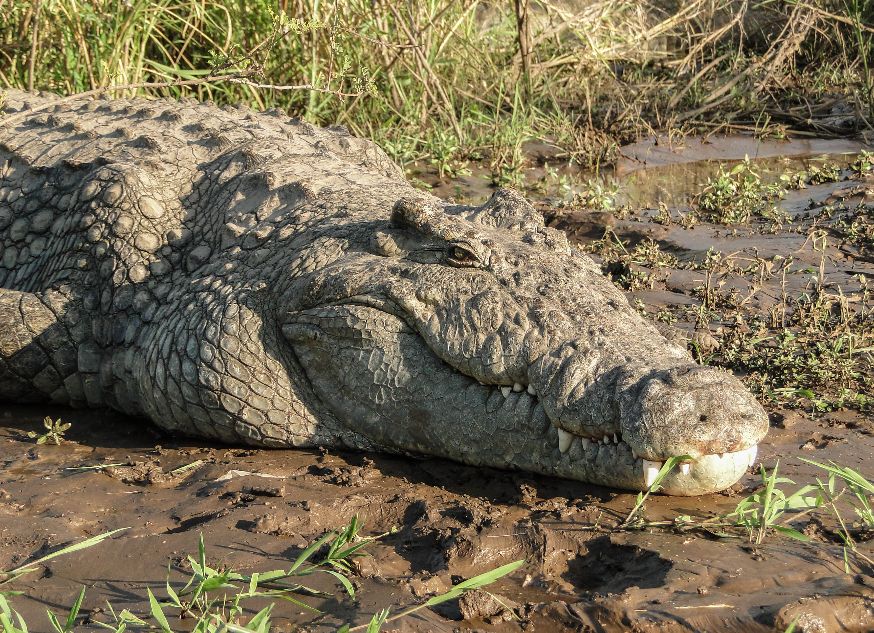 Nile crocodile (Crocodylus niloticus) on the shore of Lake Chamo, Ethiopia